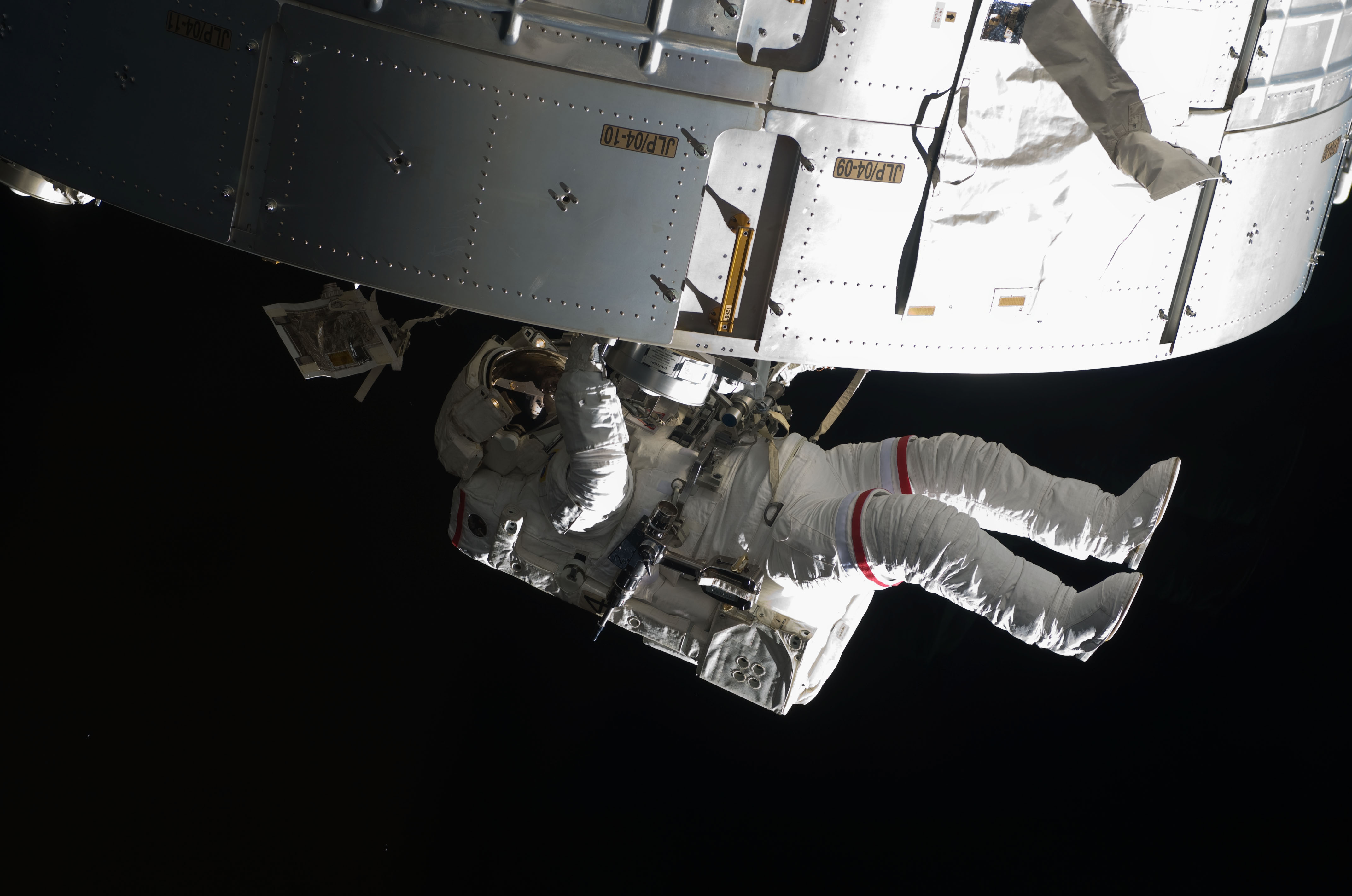 Astronaut Steve Swanson, STS-119 mission specialist, participates in the mission's second scheduled session of extravehicular activity (EVA) as construction and maintenance continue on the International Space Station. During the six-hour, 30-minute spacewalk Swanson and astronaut Joseph Acaba (out of frame), mission specialist, prepared a worksite so the STS-127 spacewalkers can more easily change out the Port 6 truss batteries later this year. On the Japanese Kibo laboratory they installed a second Global Positioning Satellite antenna that will be used for the planned rendezvous of the Japanese HTV cargo ship in September. They photographed areas of radiator panels extended from the Port 1 and Starboard 1 trusses and reconfigured connectors at a patch panel on the Zenith 1 truss that power Control Moment Gyroscopes.